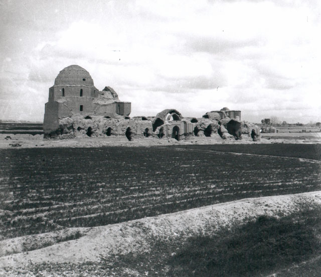 Picture shows the building before being repaired.